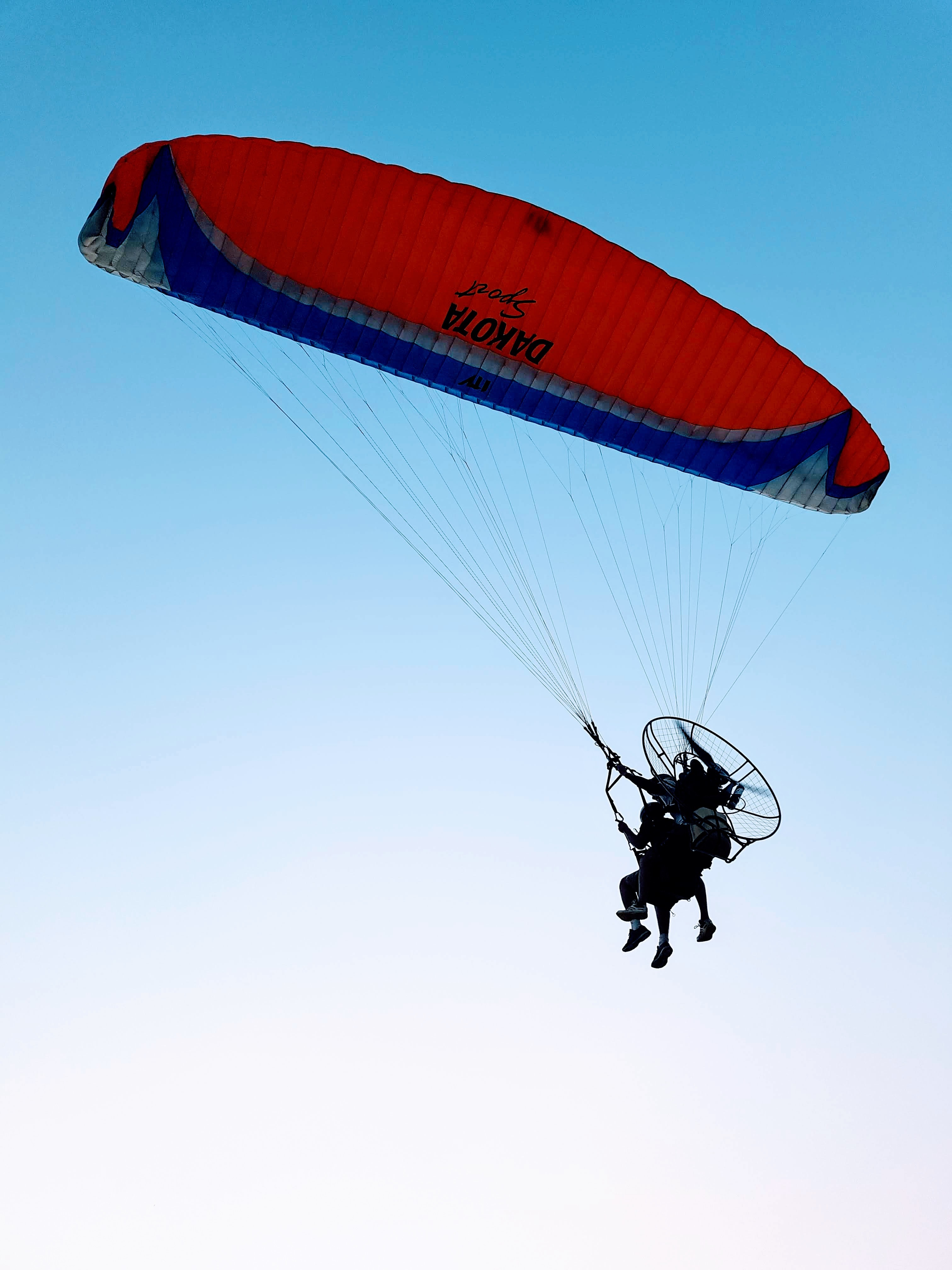 Paraglider landing at Azheekkod beach, Trissur, Kerala, India